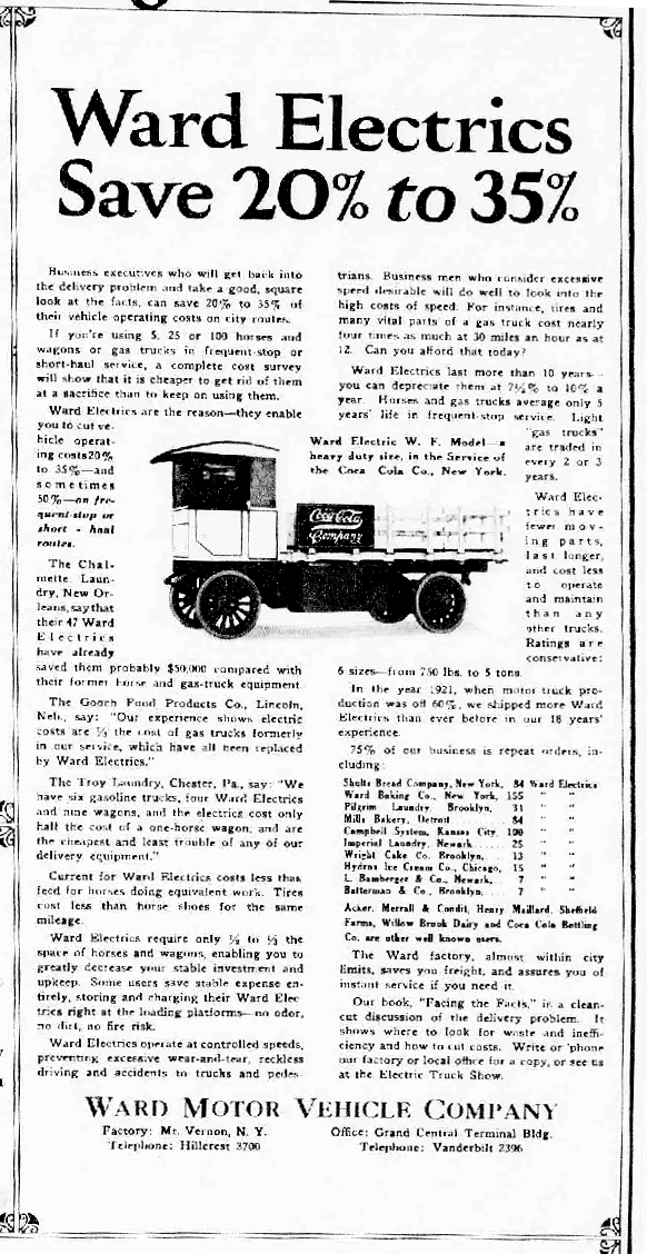 Newspaper ad for the Ward Electric truck, with an example of a Coca-Cola truck.